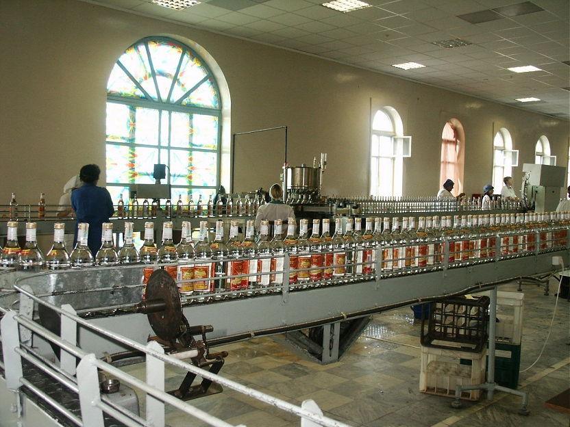 Bottles of liquor on the conveyor belt in a distillery in Mariinsky Posad, Chuvashia, Russia.